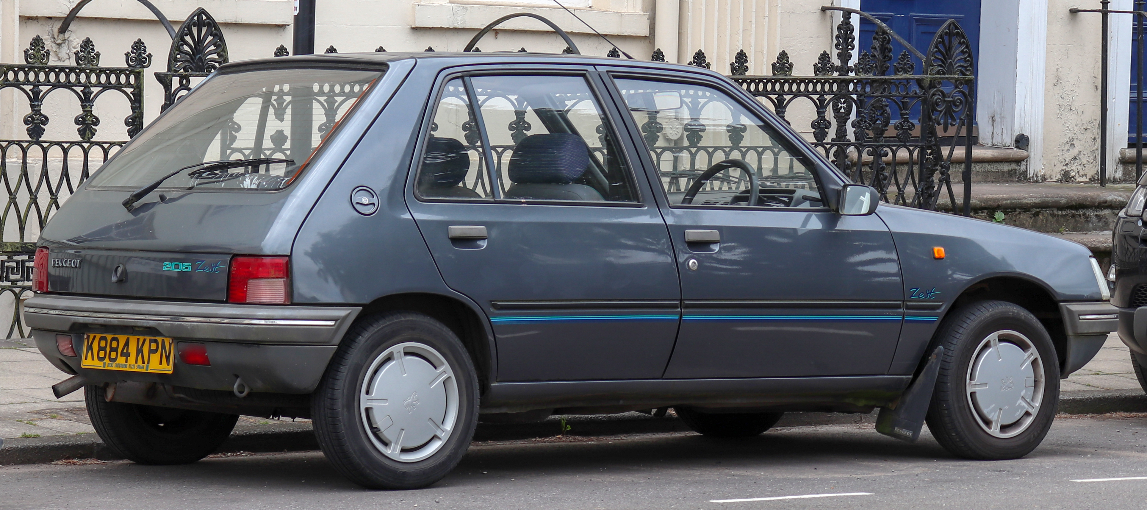 1992 Peugeot 205 Zest 1.1 Rear Taken in Leamington Spa